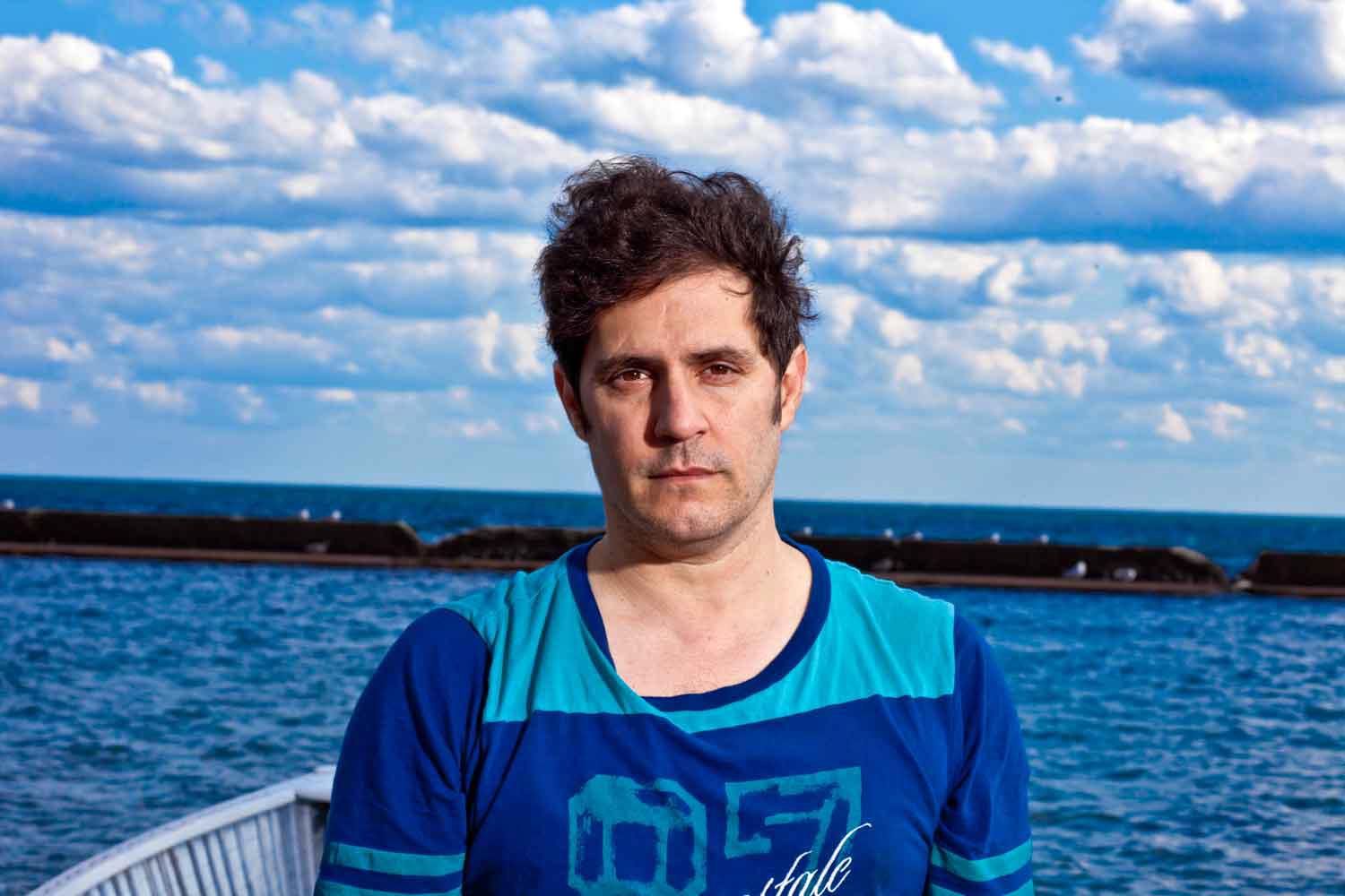 Bob Wiseman official.